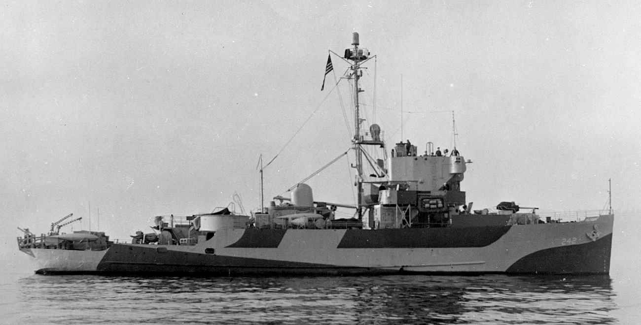 This image was copied from en. The original description was: USS Inaugural serving in WW2. Copied from public domain